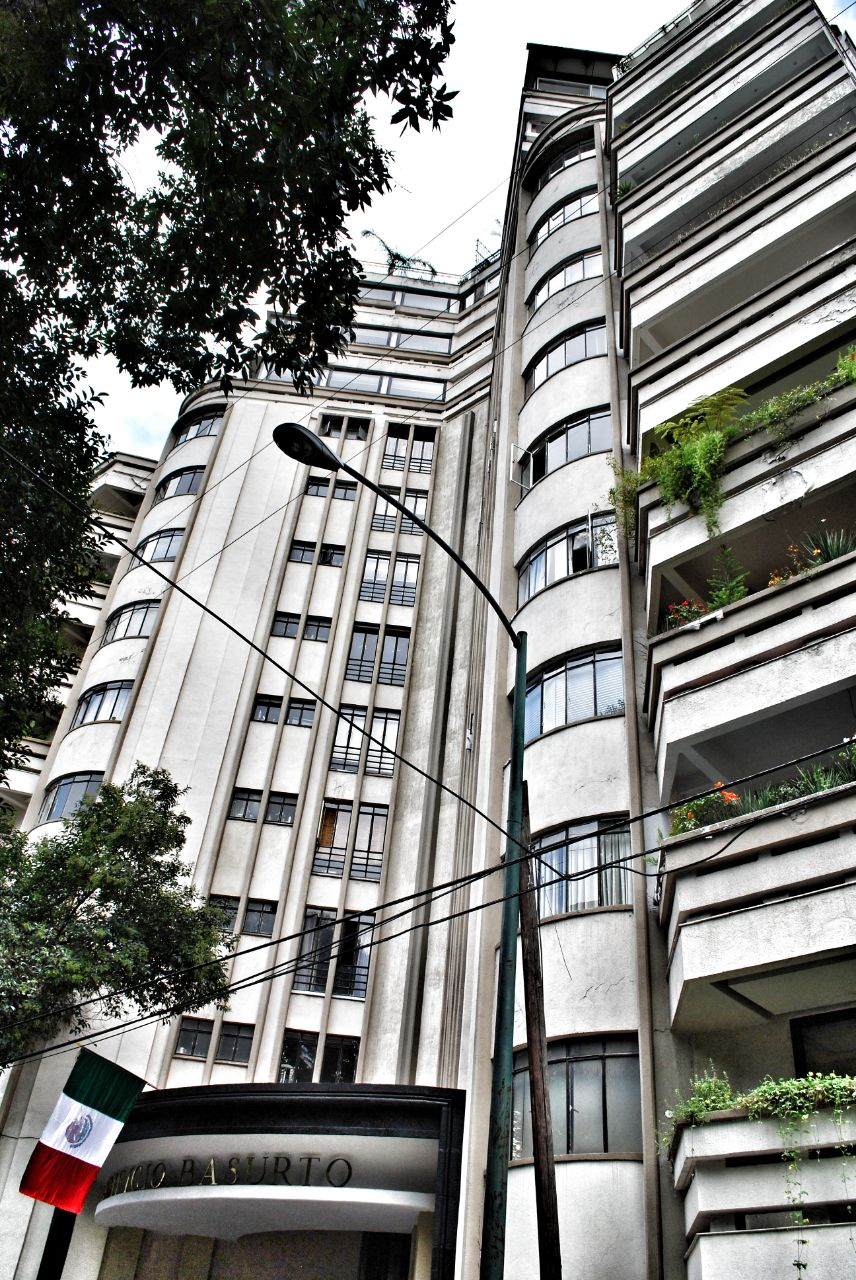 Edificio Basurto — a Modernist building in Colonia Hipodromo in Condesa, Mexico City.